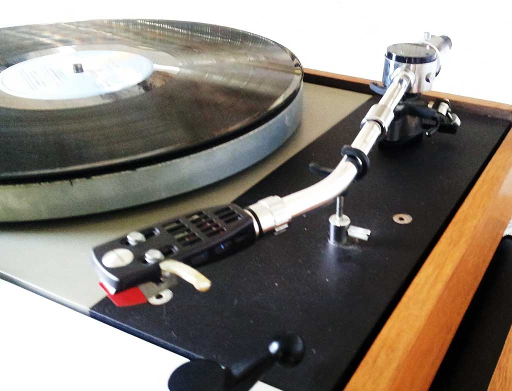 Thorens TD125 MkII + Audio Technica AT1009 Tonearm